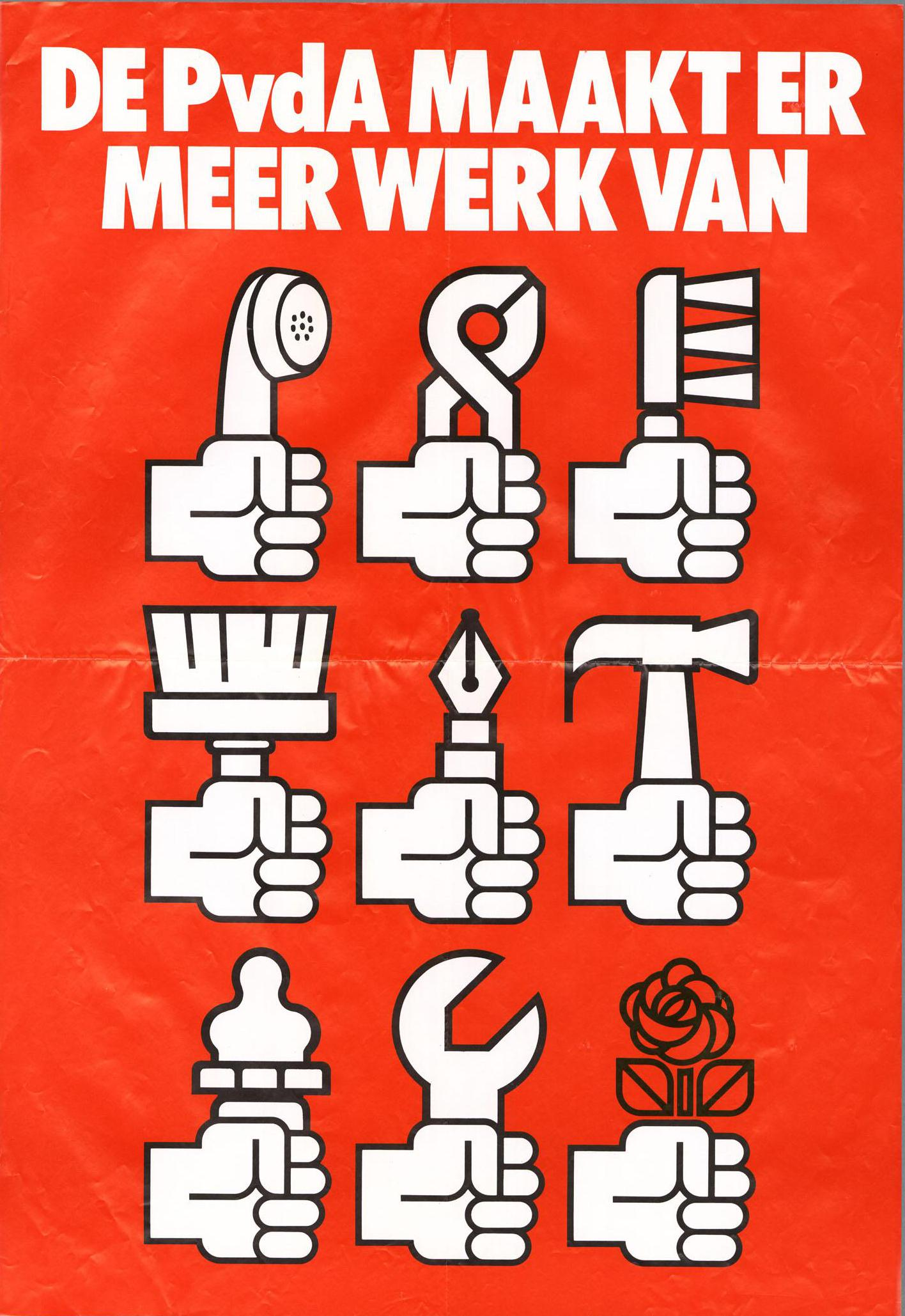 Poster used in the 1981 general elections by the Dutch Labor Party. Designed by Frans van der Linde.